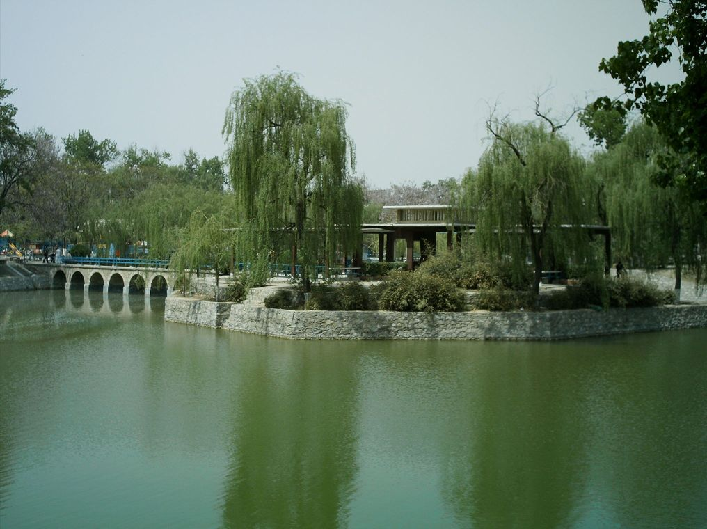 Photo of a public park in Baoding, China